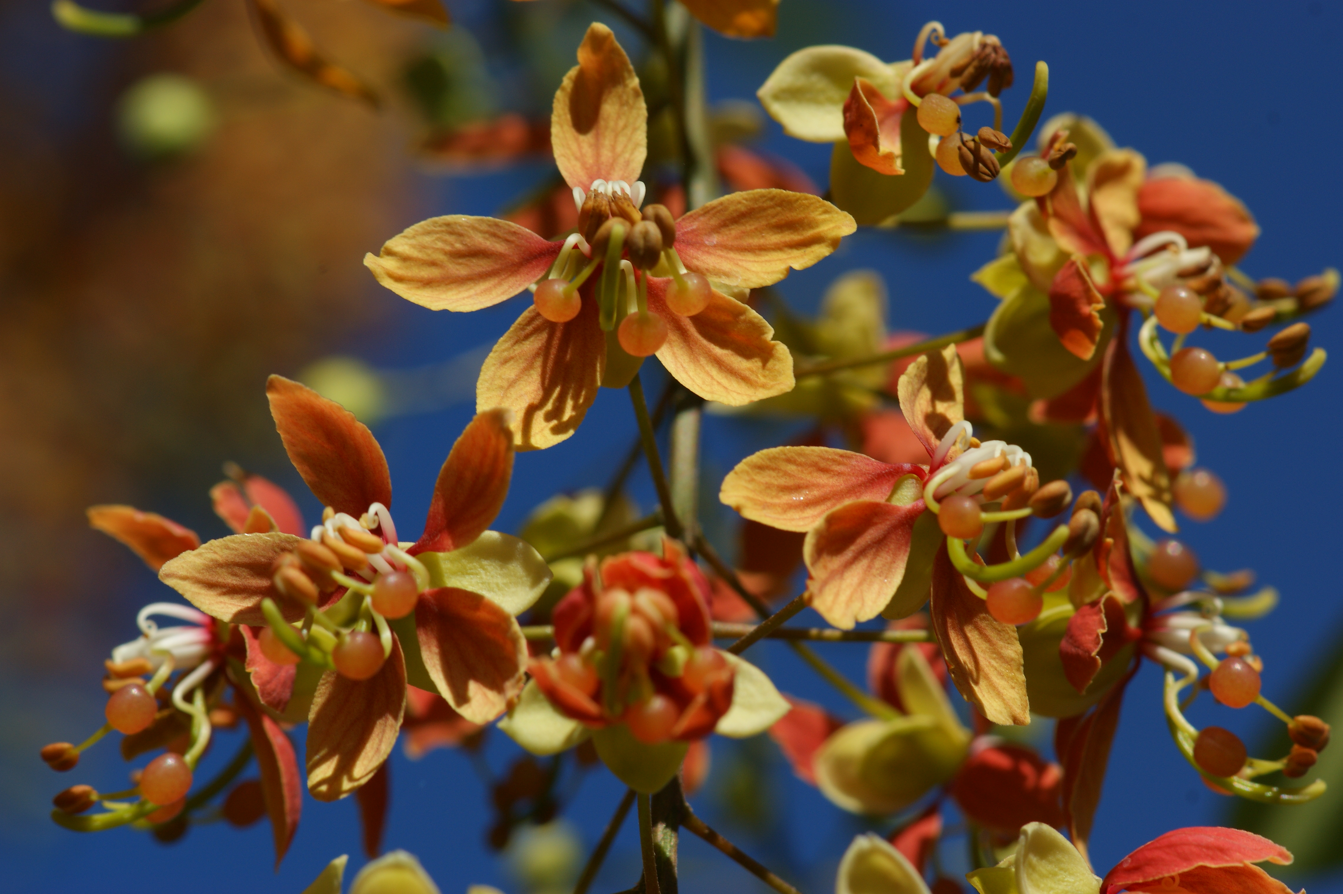 If ever in C'ville from September to November, a stroll around the course will give a good representation of the local vegetation. Cassia brewsteri var.brewsteri